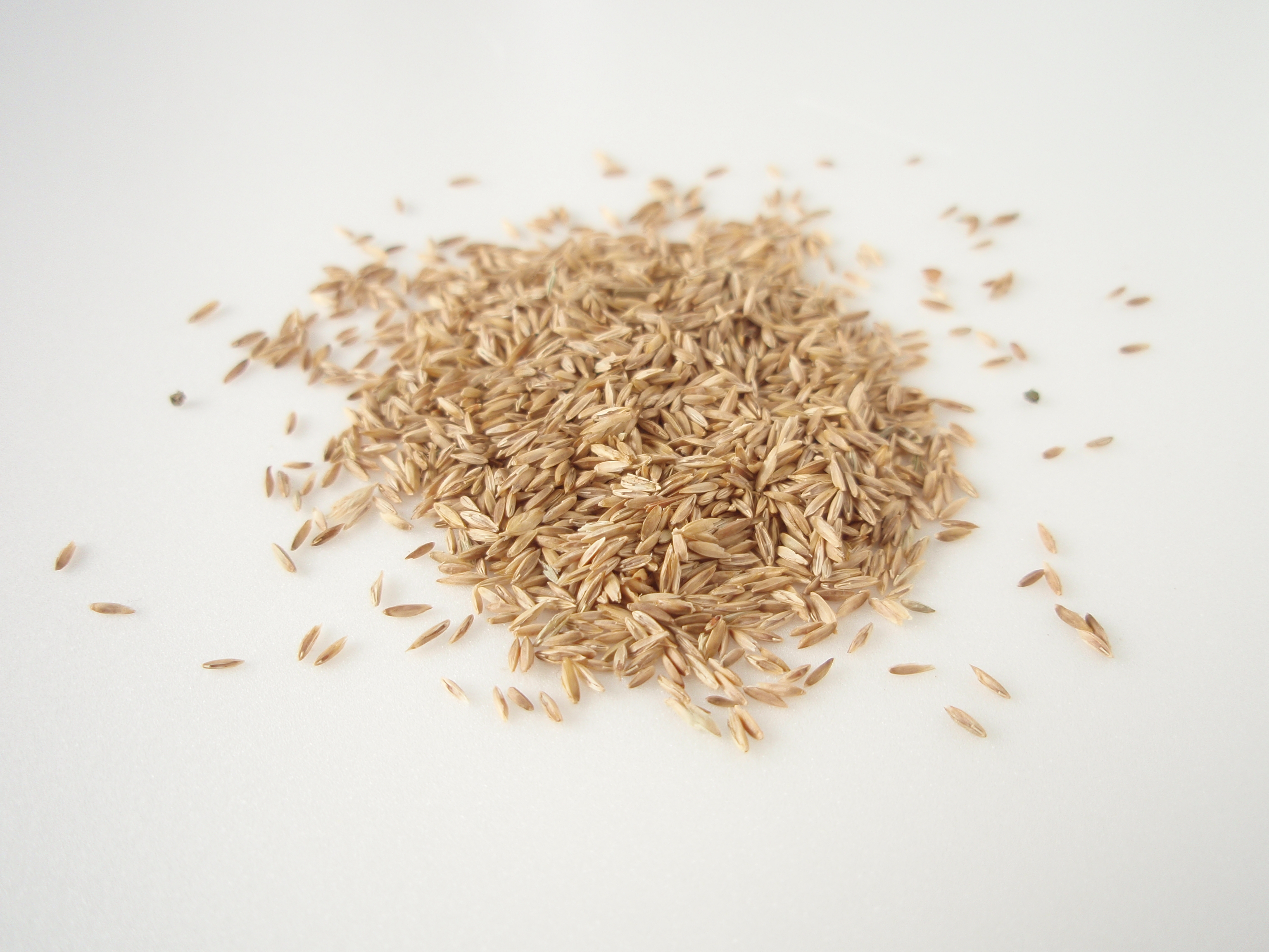 Seeds of Poa pratensis (Kentucky Bluegrass)